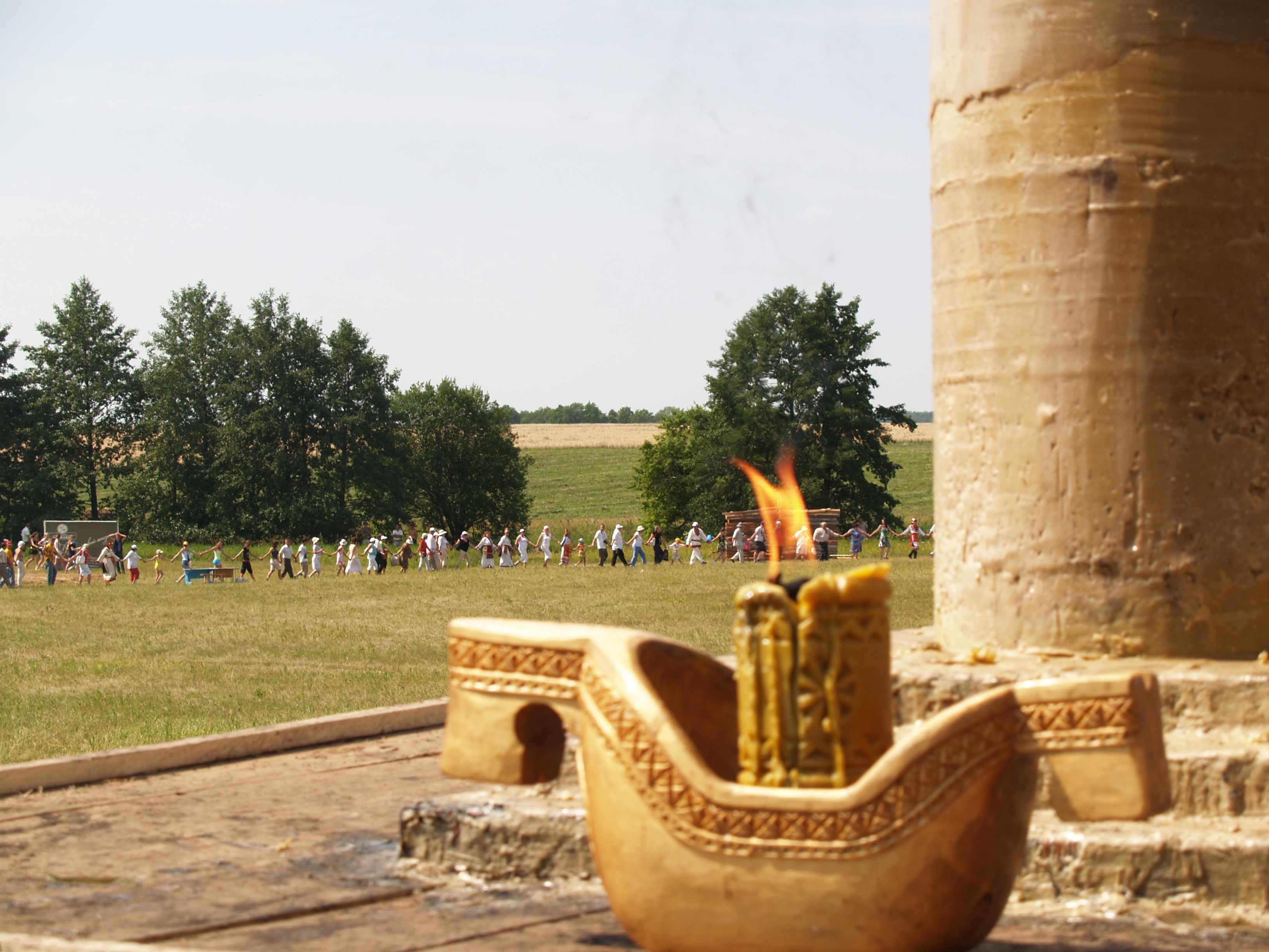 Two candles. Erzya universal prayer (Rasken Ozks). the village of Chukaly, Bolsheignatovsky district, Mordovia. 7 July 2010. This photo has been taken in the country: Russia